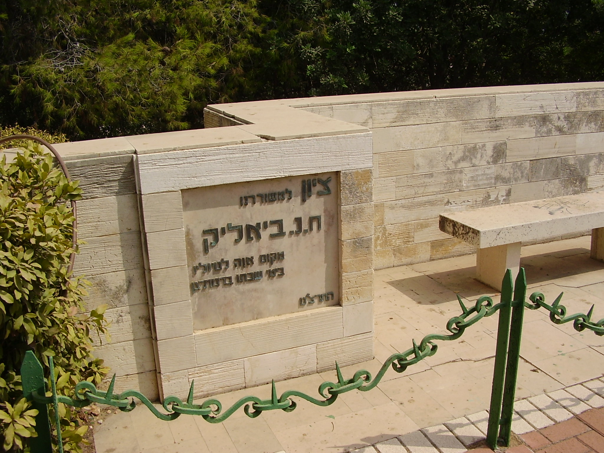 Corner for the poet Bialik, Ramat Gan, Israel